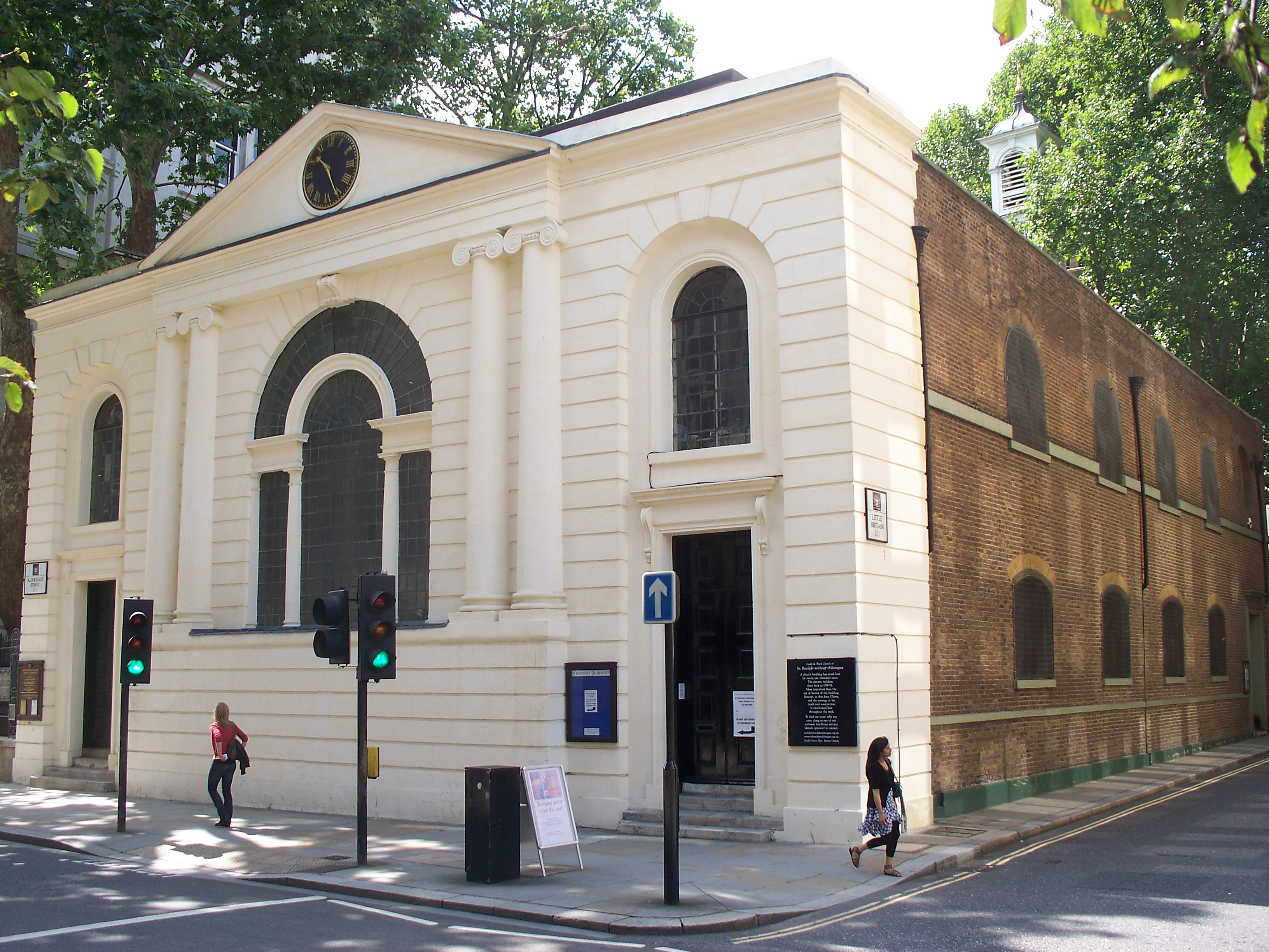 St Botolph's Aldersgate Church, Postman's Park, London. Photograph taken in a public location in the UK of a building on permanent public display, and exempt from copyright under Section 62 of the Copyright Designs & Patents Act 1988 ("it is not an infringement of copyright to film, photograph, broadcast or make a graphic image of a building, sculpture, models for buildings or work of artistic craftsmanship if that work is permanently situated in a public place or in premises open to the public")